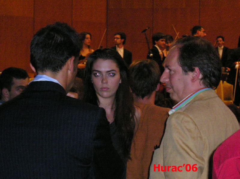 Hans Florian Zimmer (born September 12, 1957) is an Academy Award, Grammy, and Golden Globe award-winning film score composer.